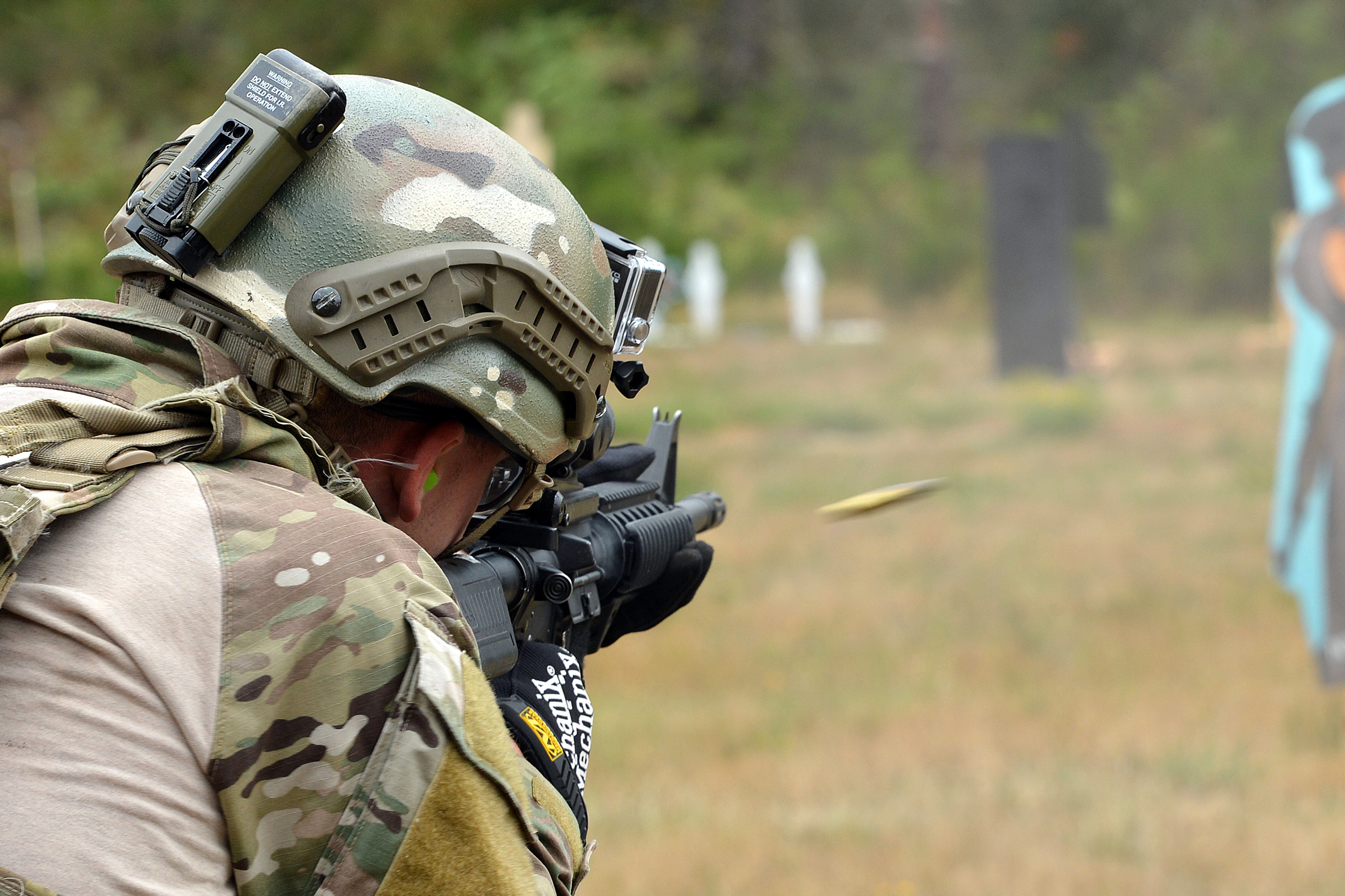 Capt. Nathan Maxton fires at a moving target Aug. 20, 2014, during the Cascade Challenge at Range 103 next to North Fort Lewis at Joint Base Lewis-McChord, Wash. Maxton is a tactical air control party member with the 3rd Air Support Operations Squadron. The participants shot the Colt M-4 carbine assault rifle and the Beretta M-9 pistol and were graded on their time of completion, and the amount of times they hit the target. (U.S. Air Force photo by Airman 1st Class Keoni Chavarria/Released)